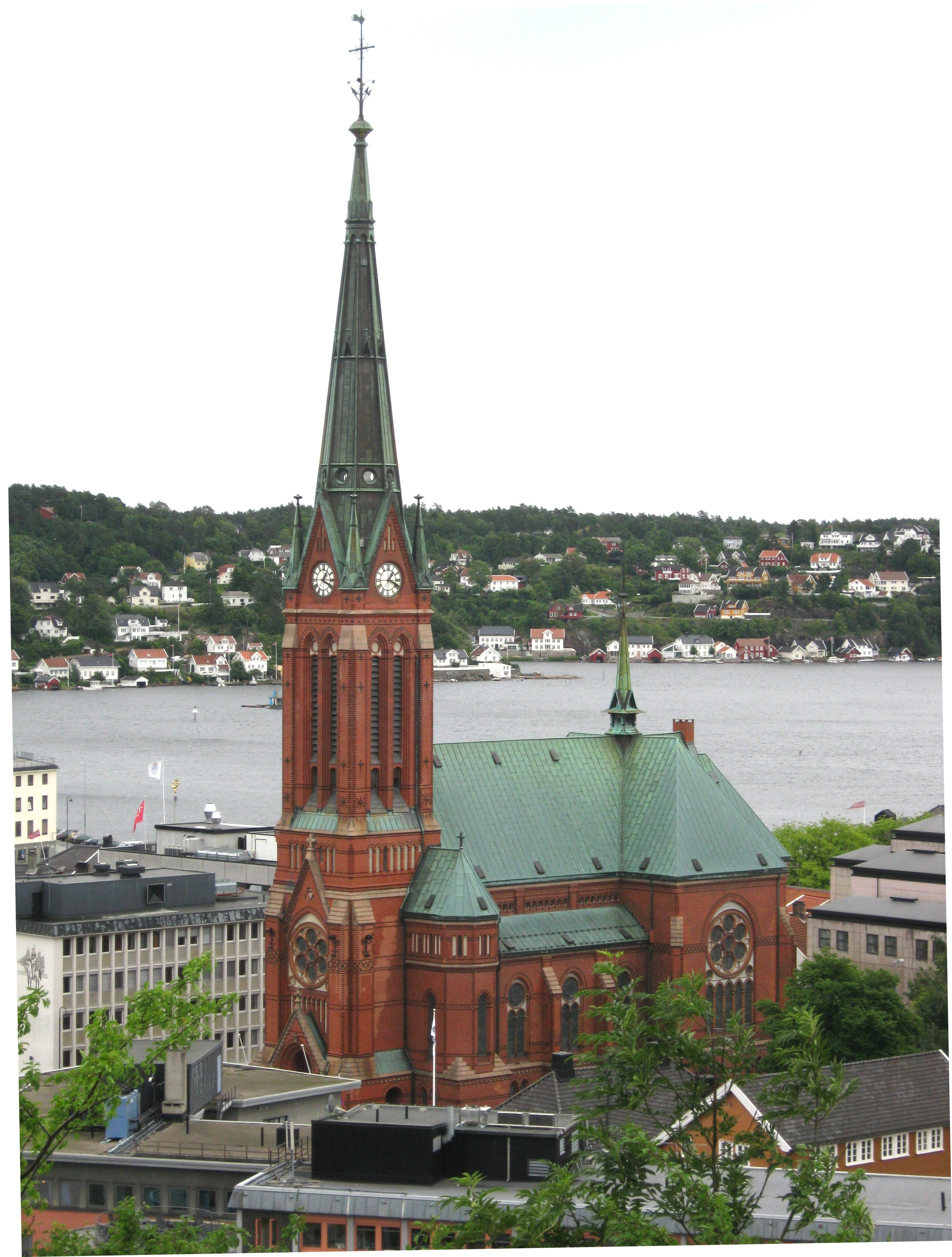 Arendal Trefoldighetskirke (church) in Arendal